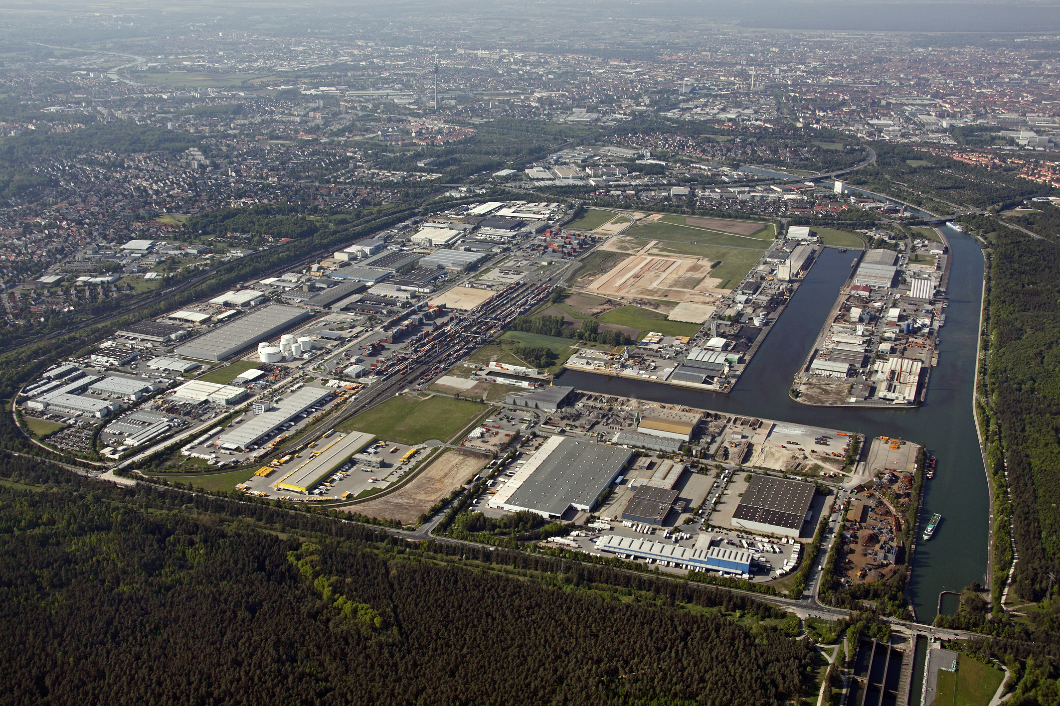 Actual aerial view of Freight village (FV) Port of Nuremberg 337 hectares total are, 260 companies located, 5,500 employees